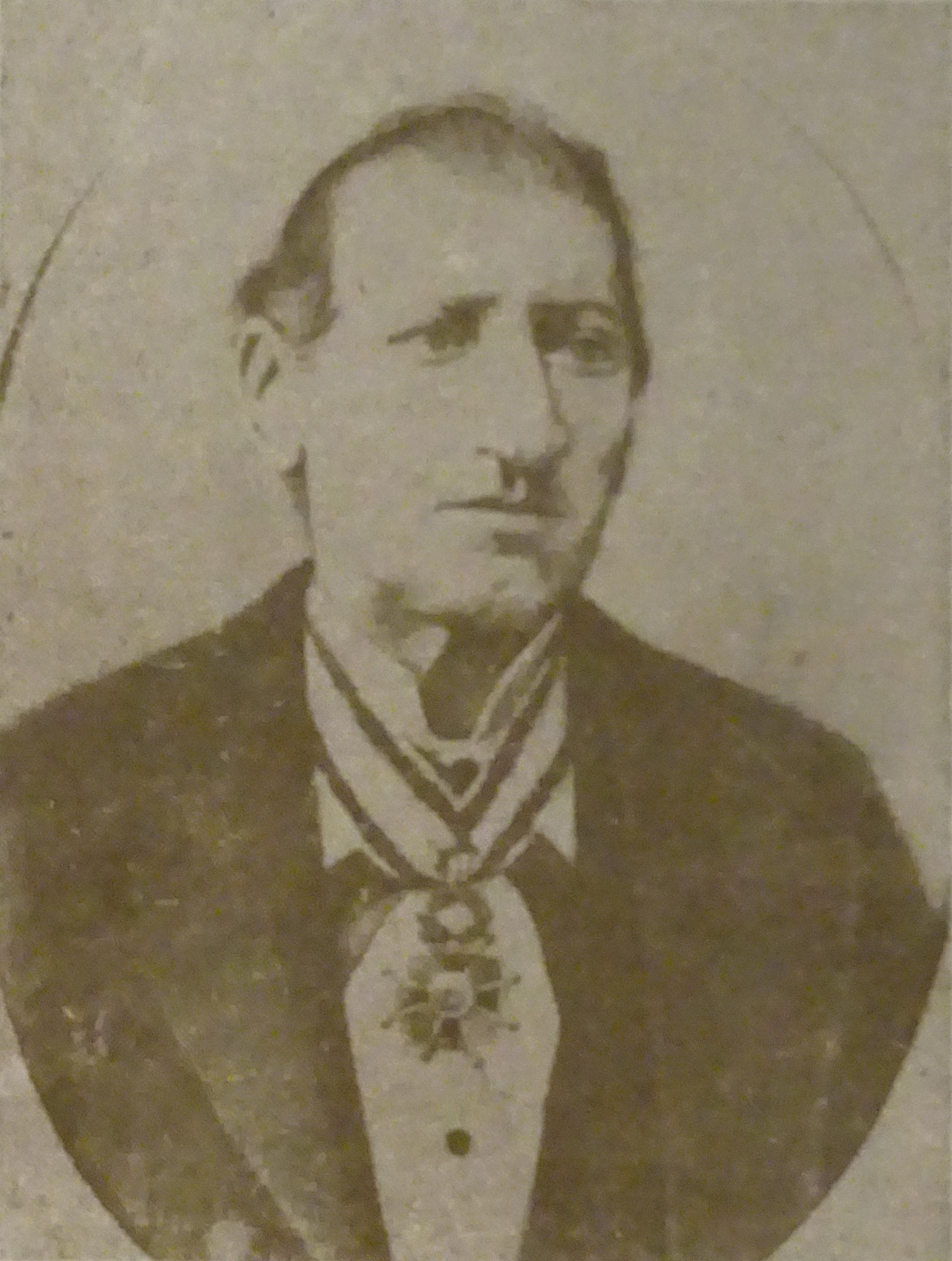 Juan Bertoli Calderoni, circa 1880 (DSC00413B)